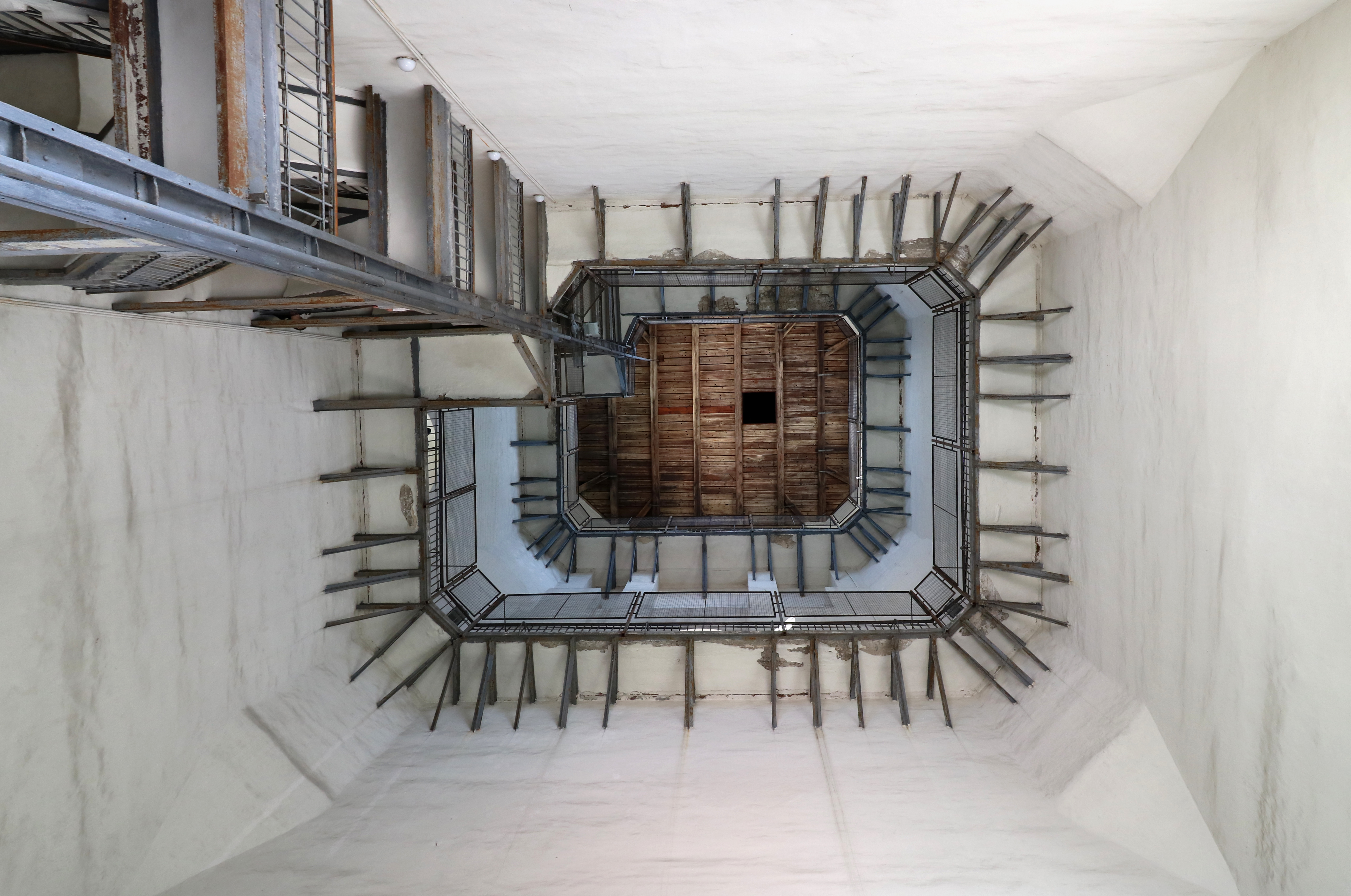 The bell tower of Saint Sophia Cathedral in Kiev 1699-1706. Interior of the dome and staircase. Look up at the ceiling from the second tier